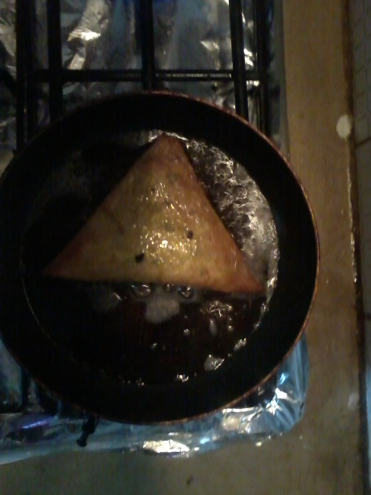 Bric frying This is an image of food from Tunisia